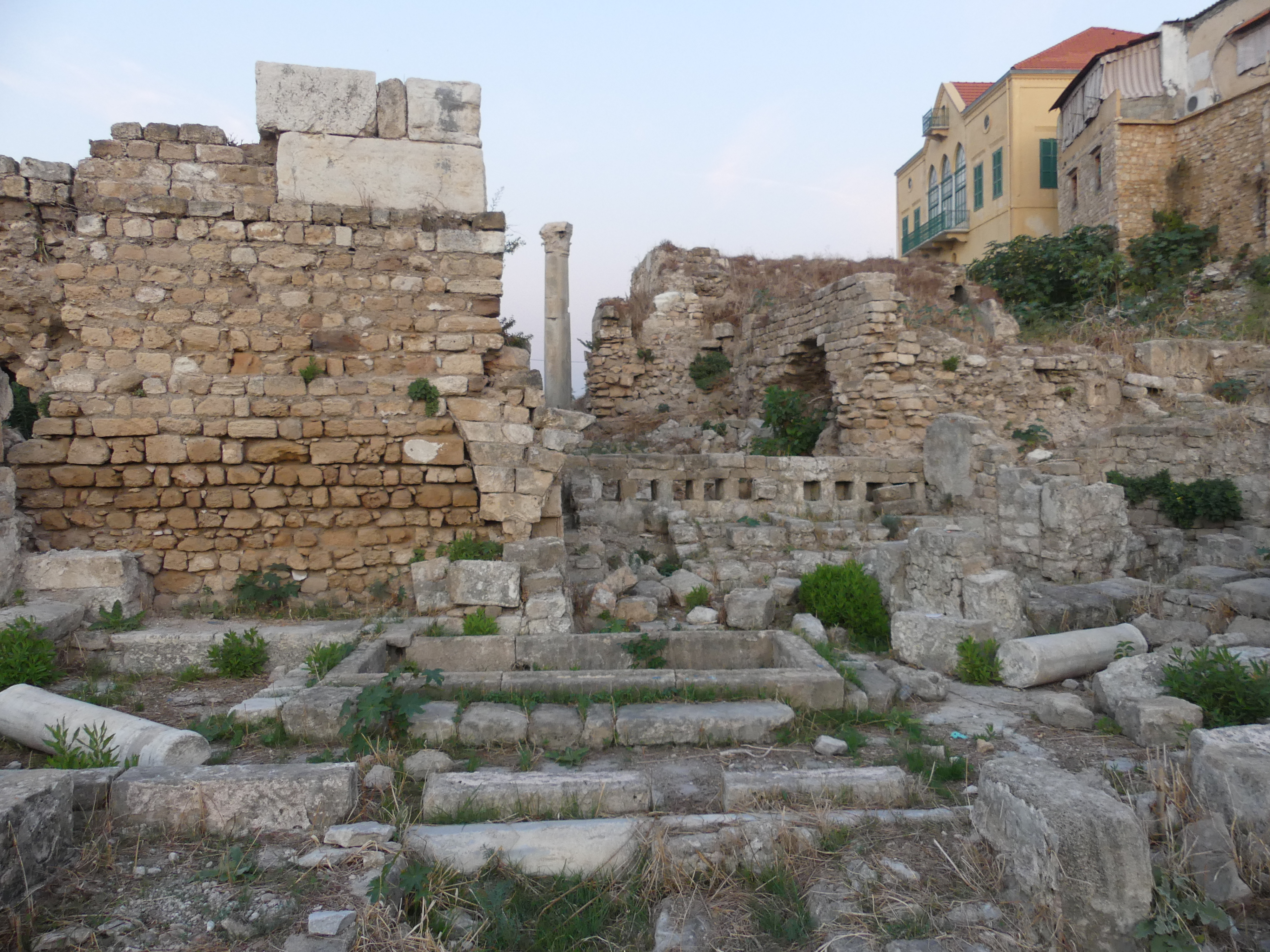 Remains of the Grand Mosque from the era of the Ismaili Shia Fatimid era, 10th to 11th century A.D., next to the ruins of the Crusader Cathedral in Tyre/Sour (Southern Lebanon): a water basin for ablution and water circuits. The Beit al Medina (Mamluk House) in the background